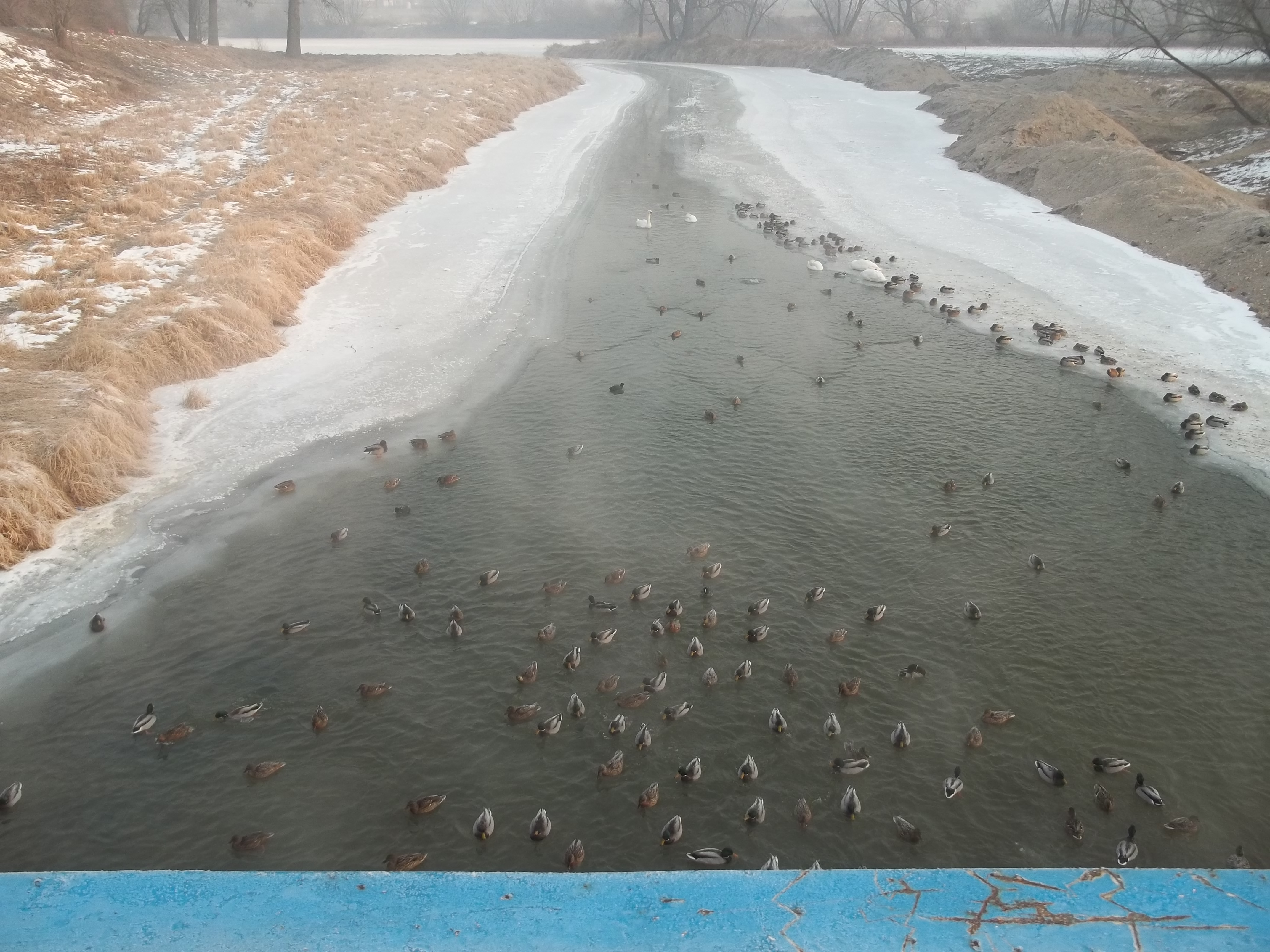 osobłoga